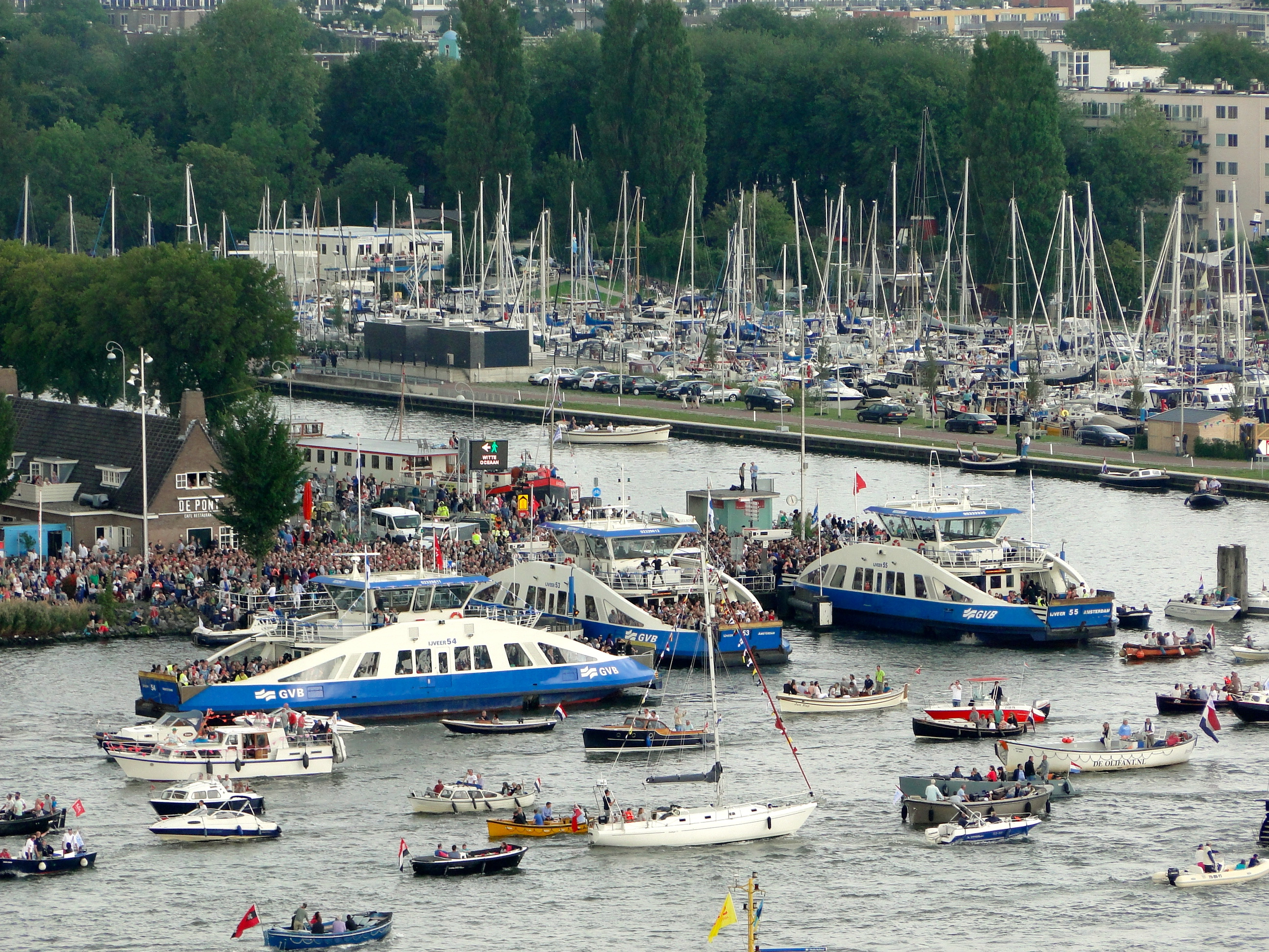 Busy Ferry Service during Sail 2015 at Buiksloterweg opposite to Centraal Station in Amsterdam on river IJ